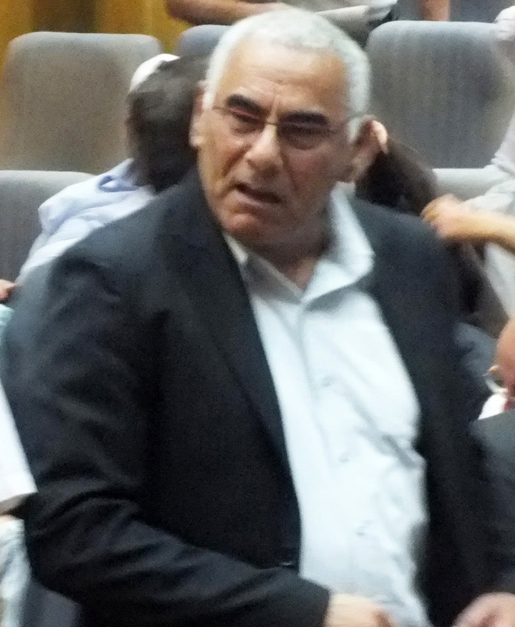 Moshe Mizrahi MK.